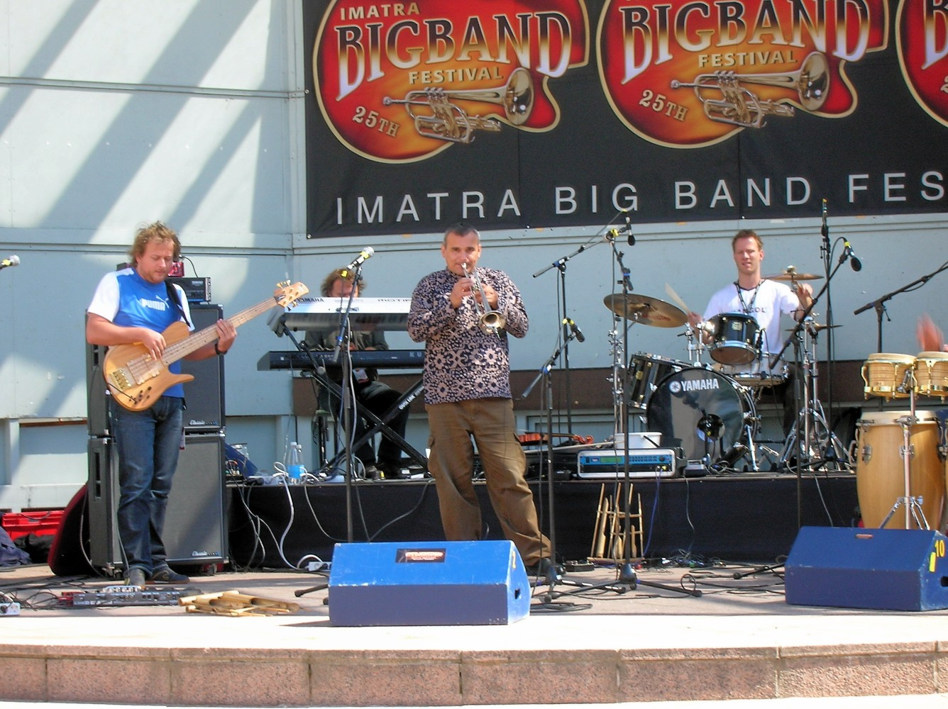 Hungarian jazz ensemble Djabe playing at the Imatra Big Band Festival 2007 in Finland.